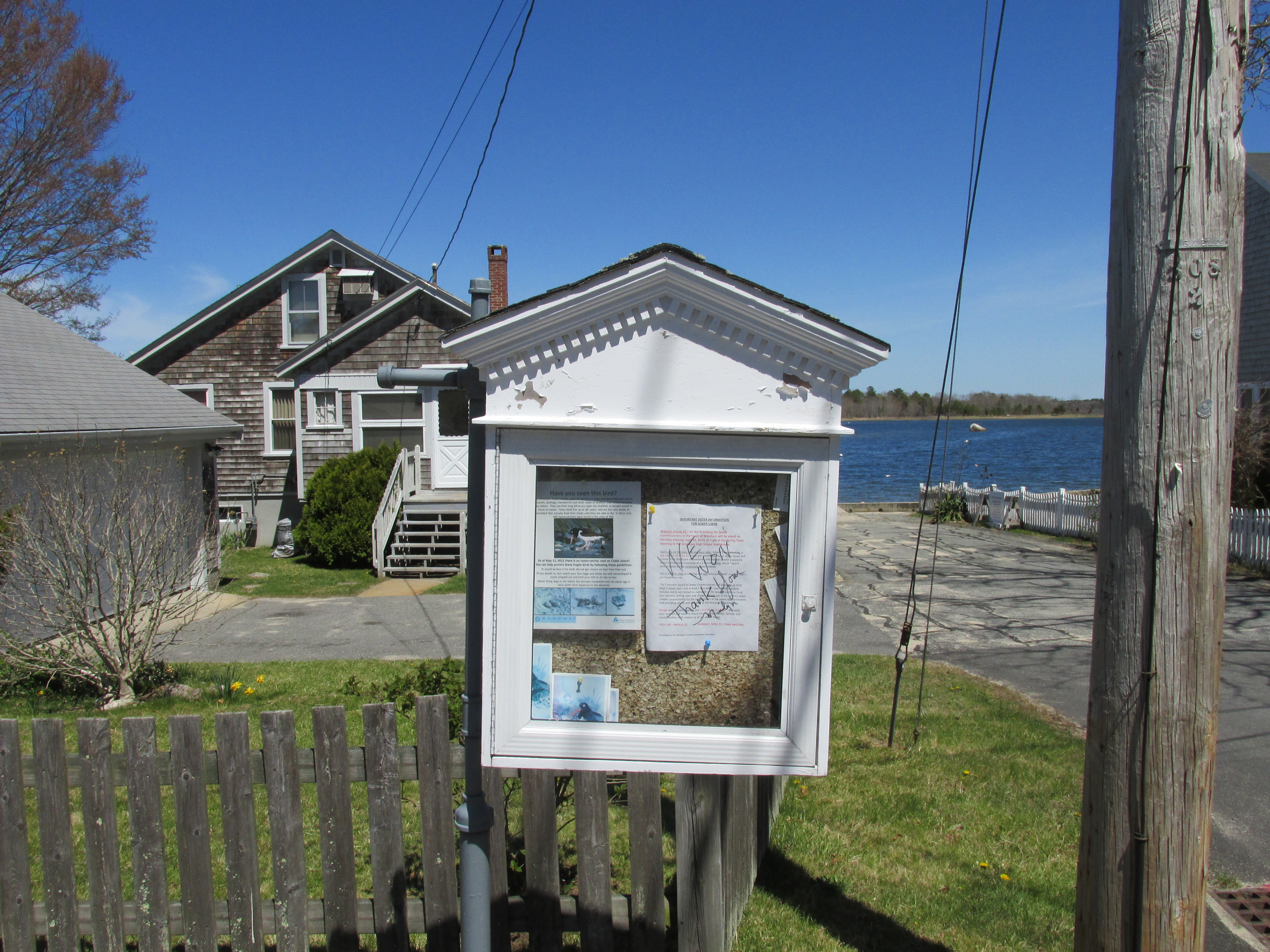 Community notices, Weweantic Massachusetts - 2013